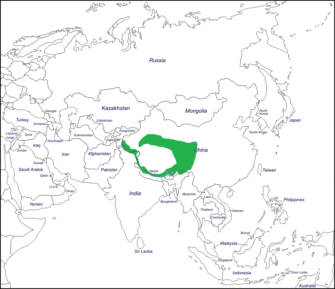 Tibetan Snowcock